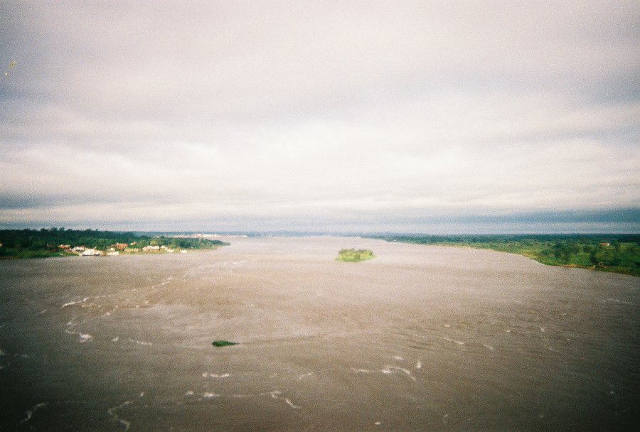 Picture of the Rio Paraguay I took in June 2005; in the far distance is Asuncion.